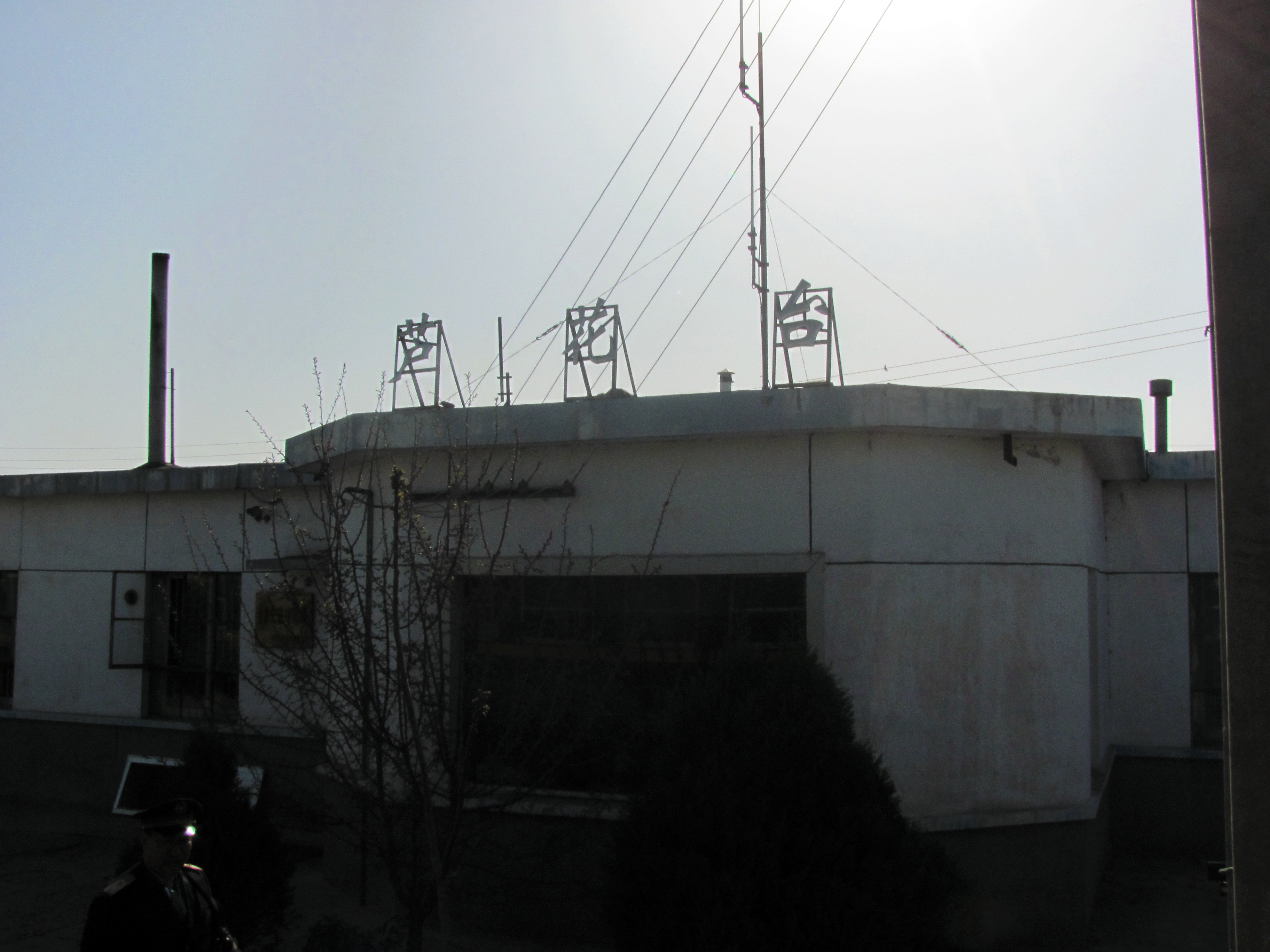 芦花台火车站